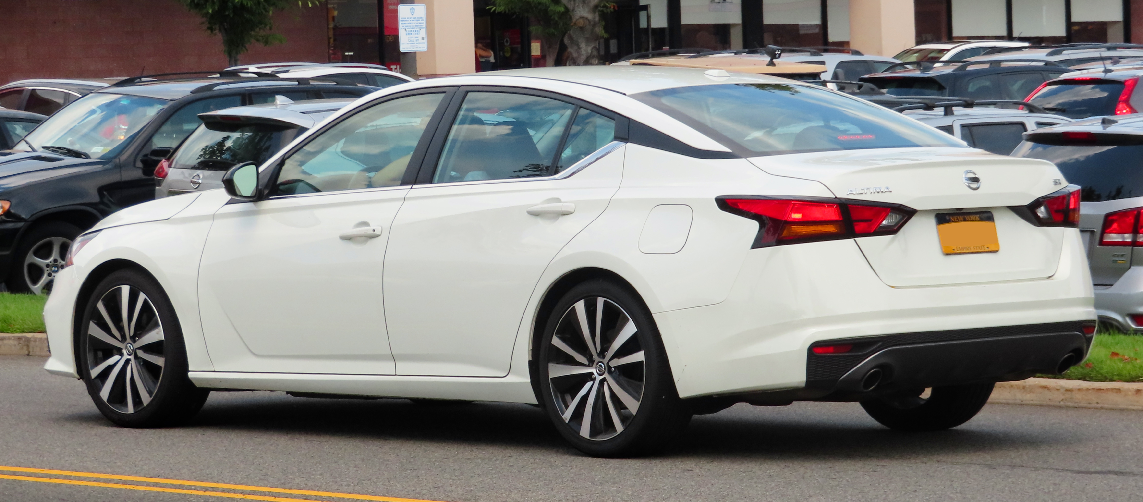 A 2019 Nissan Altima SR photographed in College Point, Queens, New York, USA